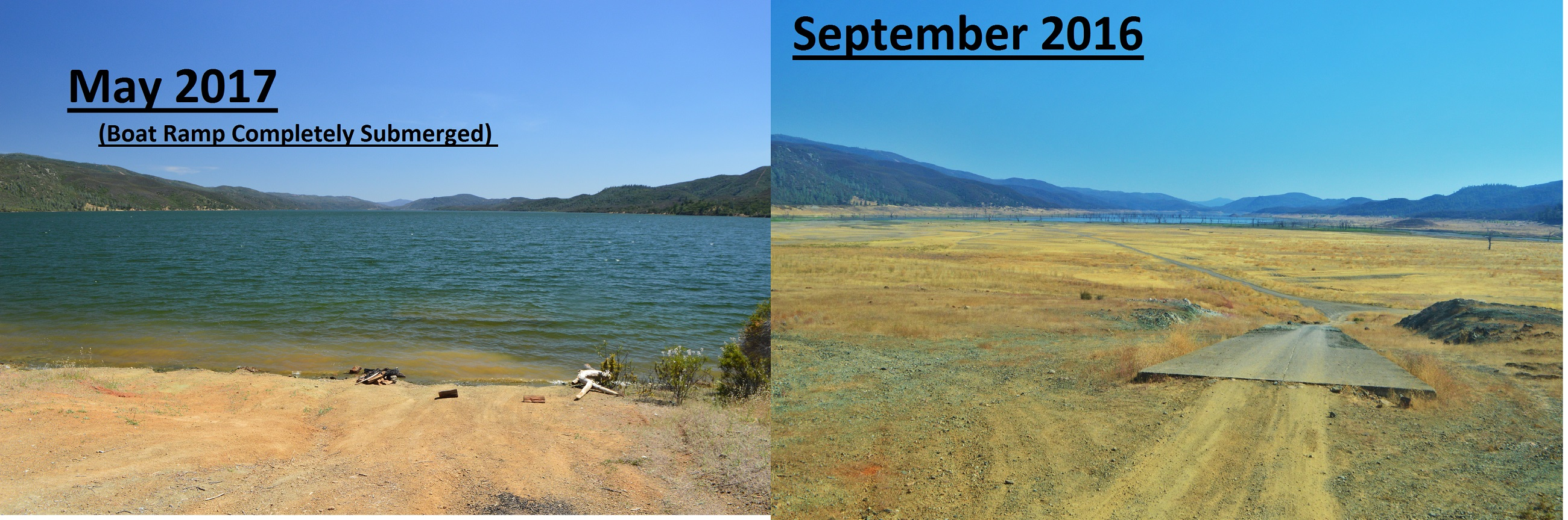 Comparison of Indian Valley Reservoir in a dry year vs a wet year